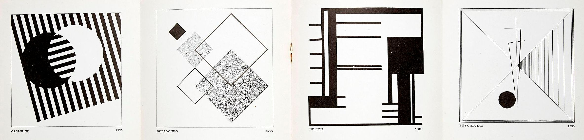 A centrefold published in the Paris art review, Art Concret, in April 1930. It contains prints of that period by Léon Arthur Tutundjian, Otto Gustaf Carlsund, Theo van Doesburg and Jean Hélion.